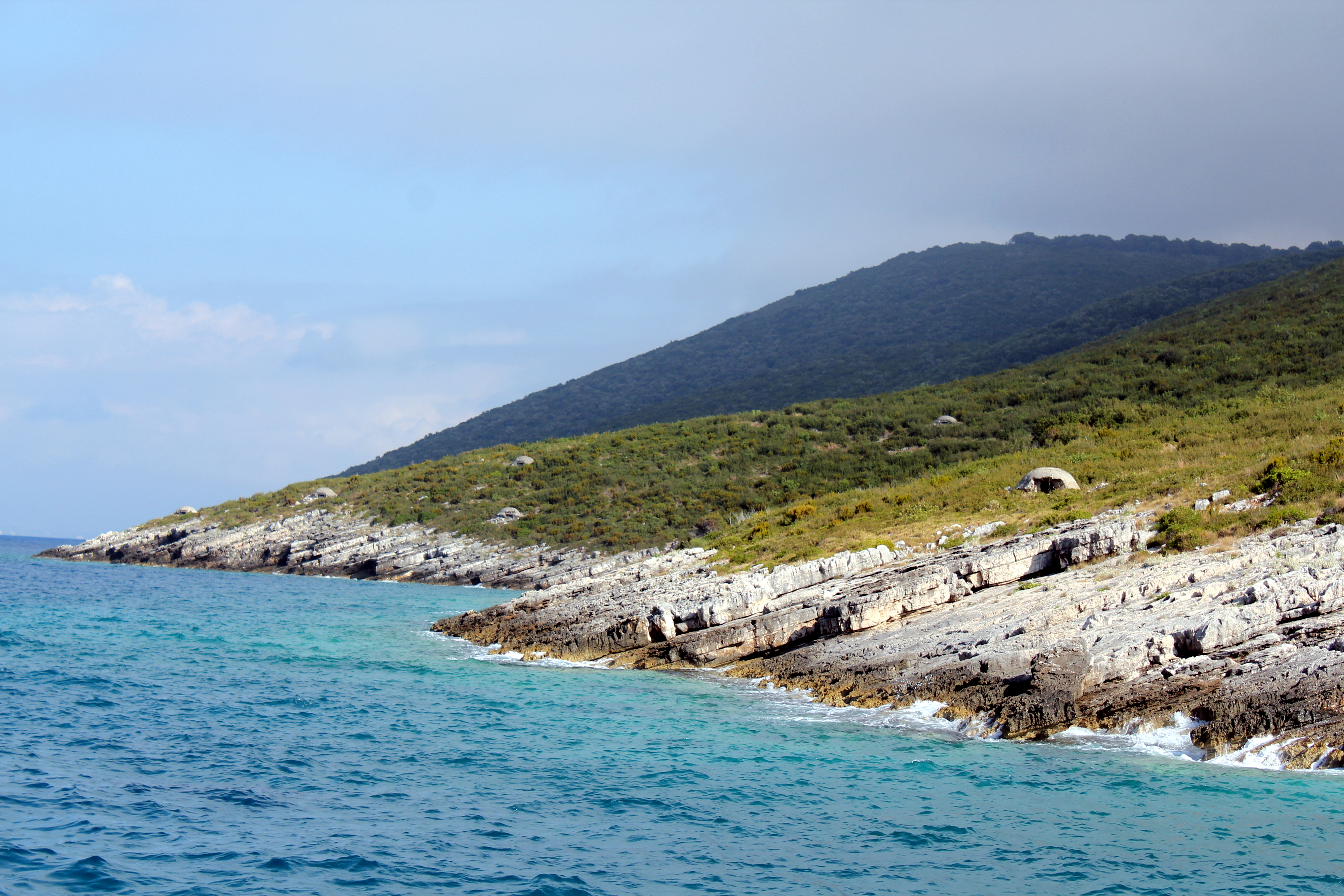 Naval bunker in Karaburun